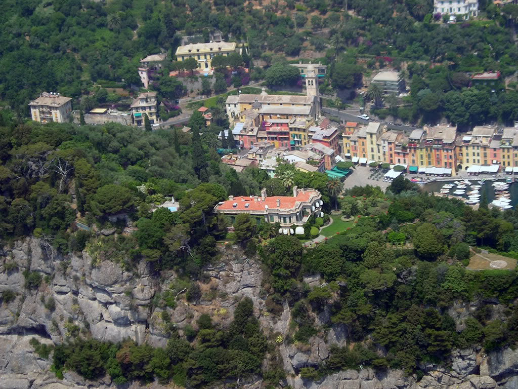 Villa Altachiara , Portofino